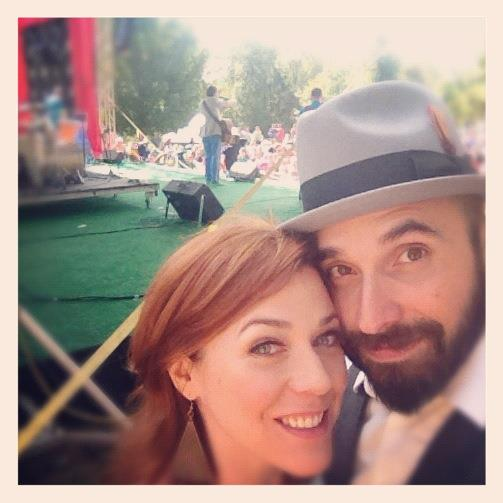 Musicians Alisha Gaddis and Lucky Diaz of Lucky Diaz and the Family Jam Band at the Minneapolis Book Festival, Target Children's Stage, September 8, 2012